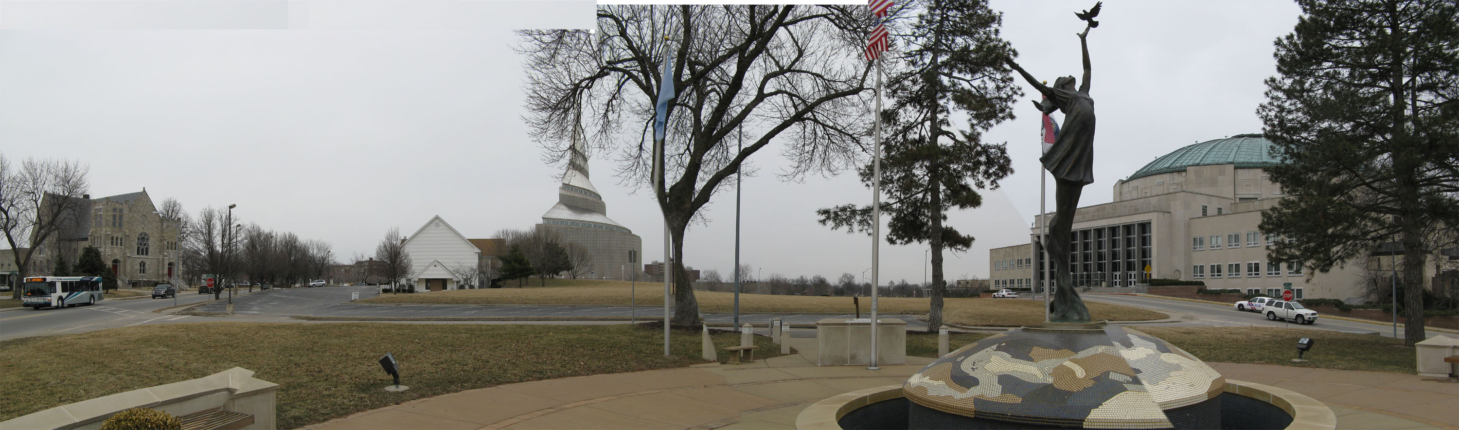 Panorama of the Temple Parcel and surroundings (dubbed the "Greater Temple Lot") in Independence, Missouri, depicting the United Nations Peace Plaza in the foreground, with the Community of Christ Stone Church, Church of Christ (Temple Lot) headquarters building (occupying part of the Temple Lot), Independence Temple and the Auditorium in the background.